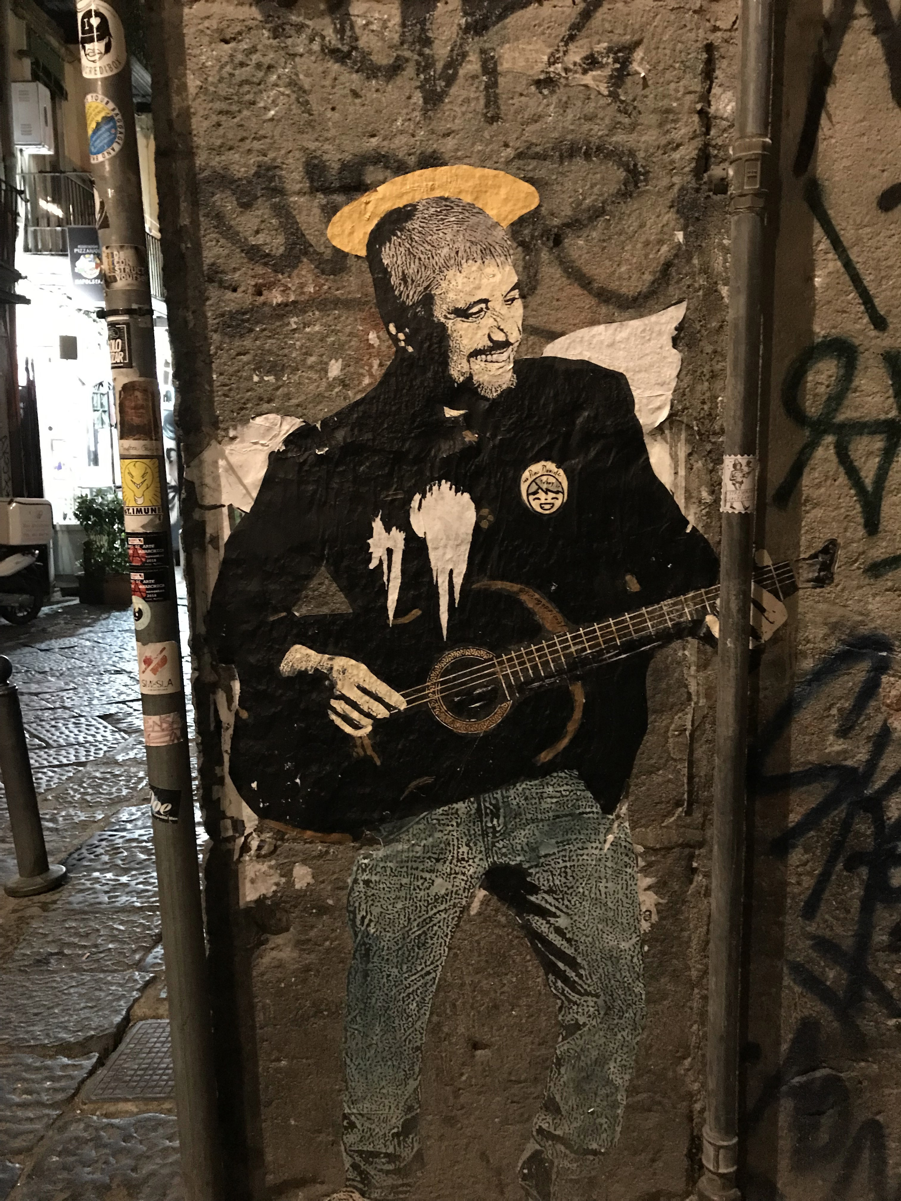 Pino Daniele, a work by Tvboy in Naples, Italy